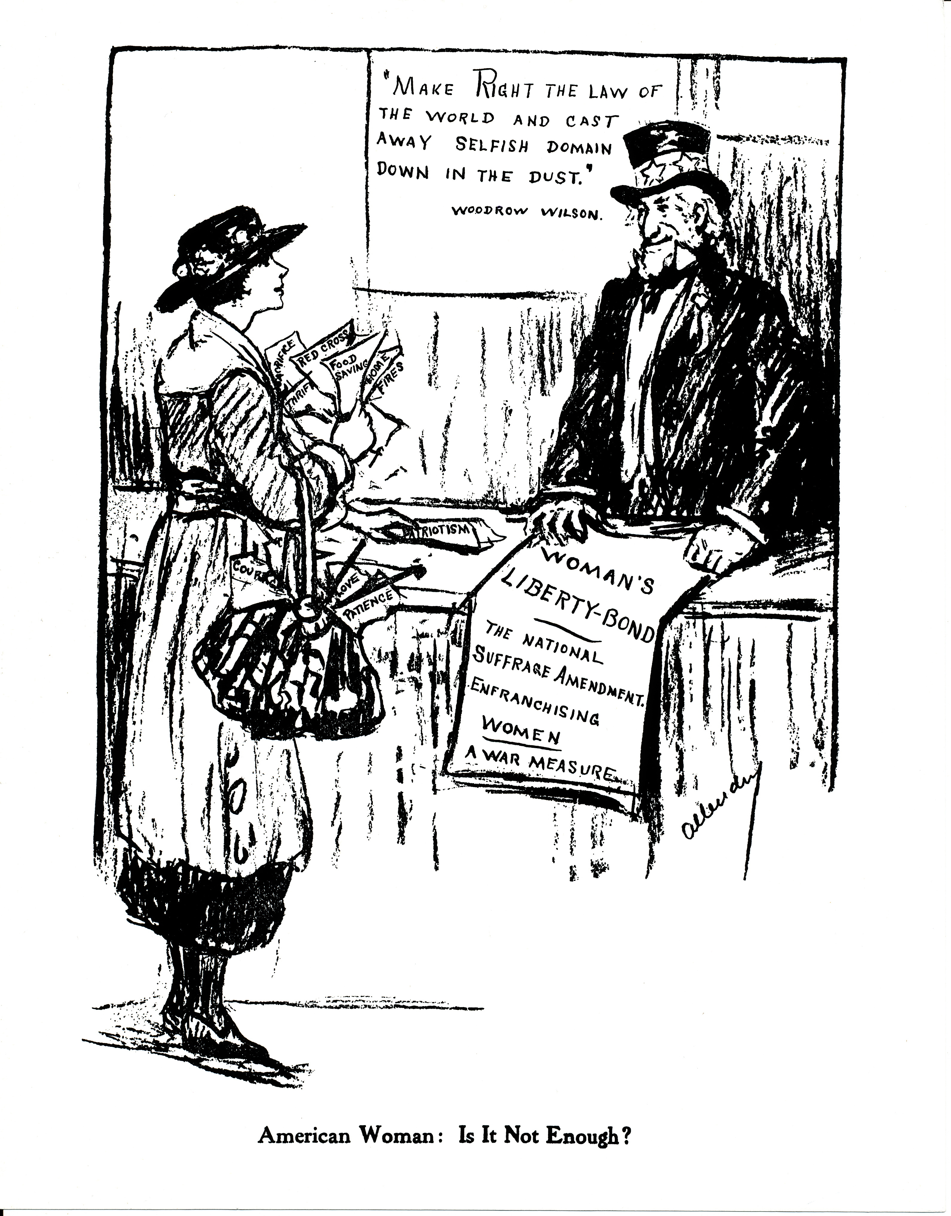 Published in The Suffragist 27 Apr 1918.